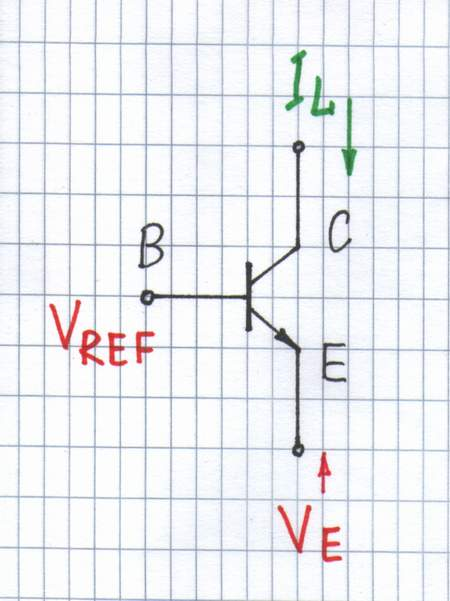 Driving a transistor from the emitter